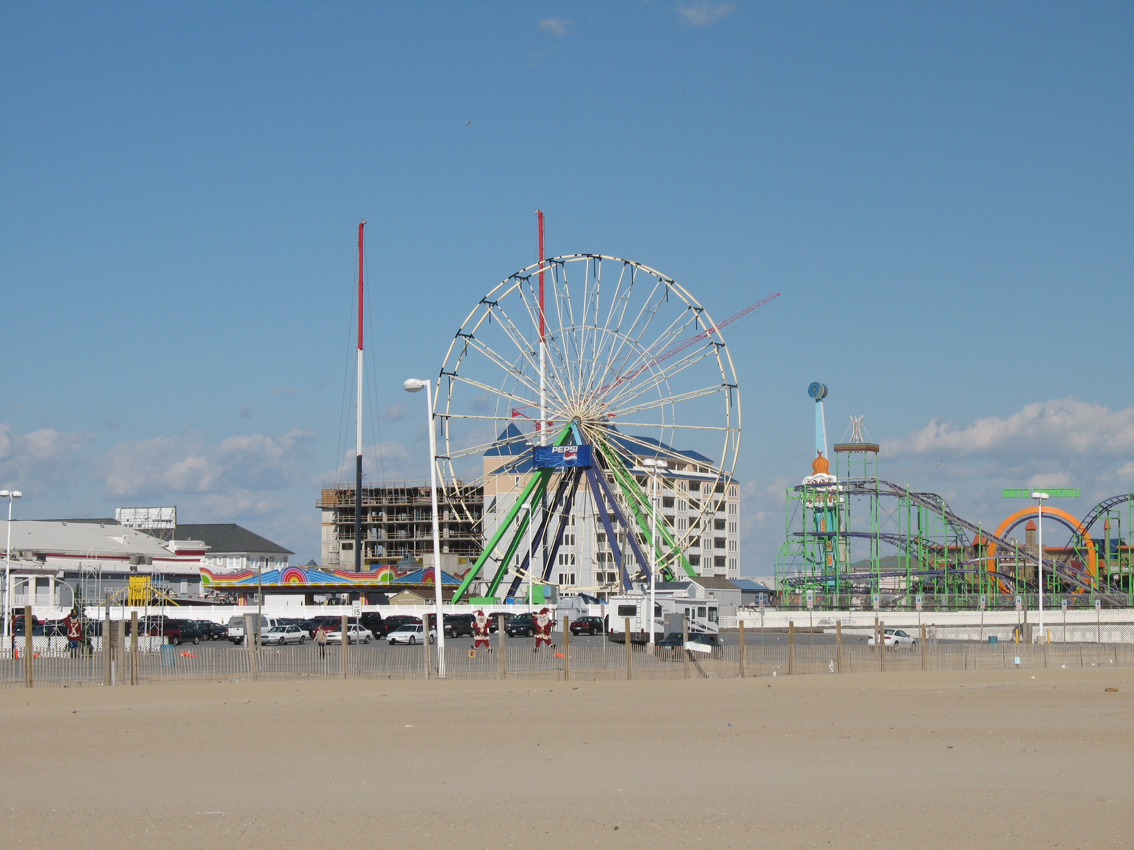 A picture of the inlet in Ocean City, Maryland during the offseason.